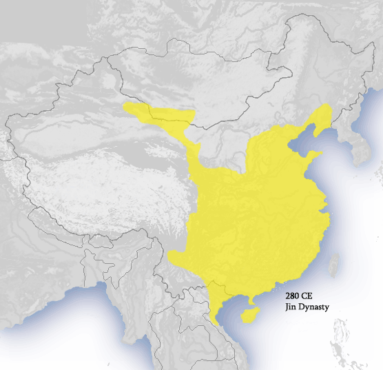 Western Jeun Dynasty 280 CE.png